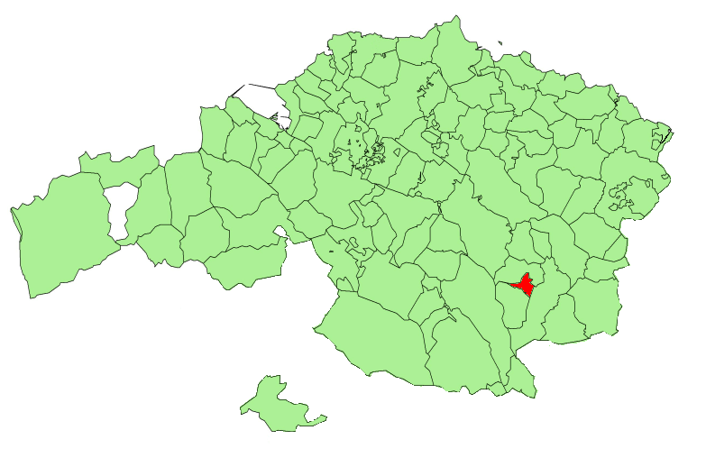 Izurtza municipality in the province of Biscay